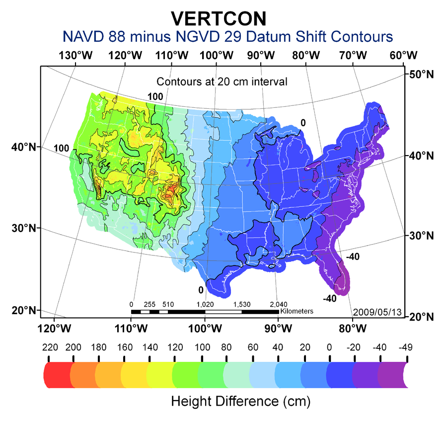 Graphic representation NAVD 88 minus NGVD 28 datum shift contours